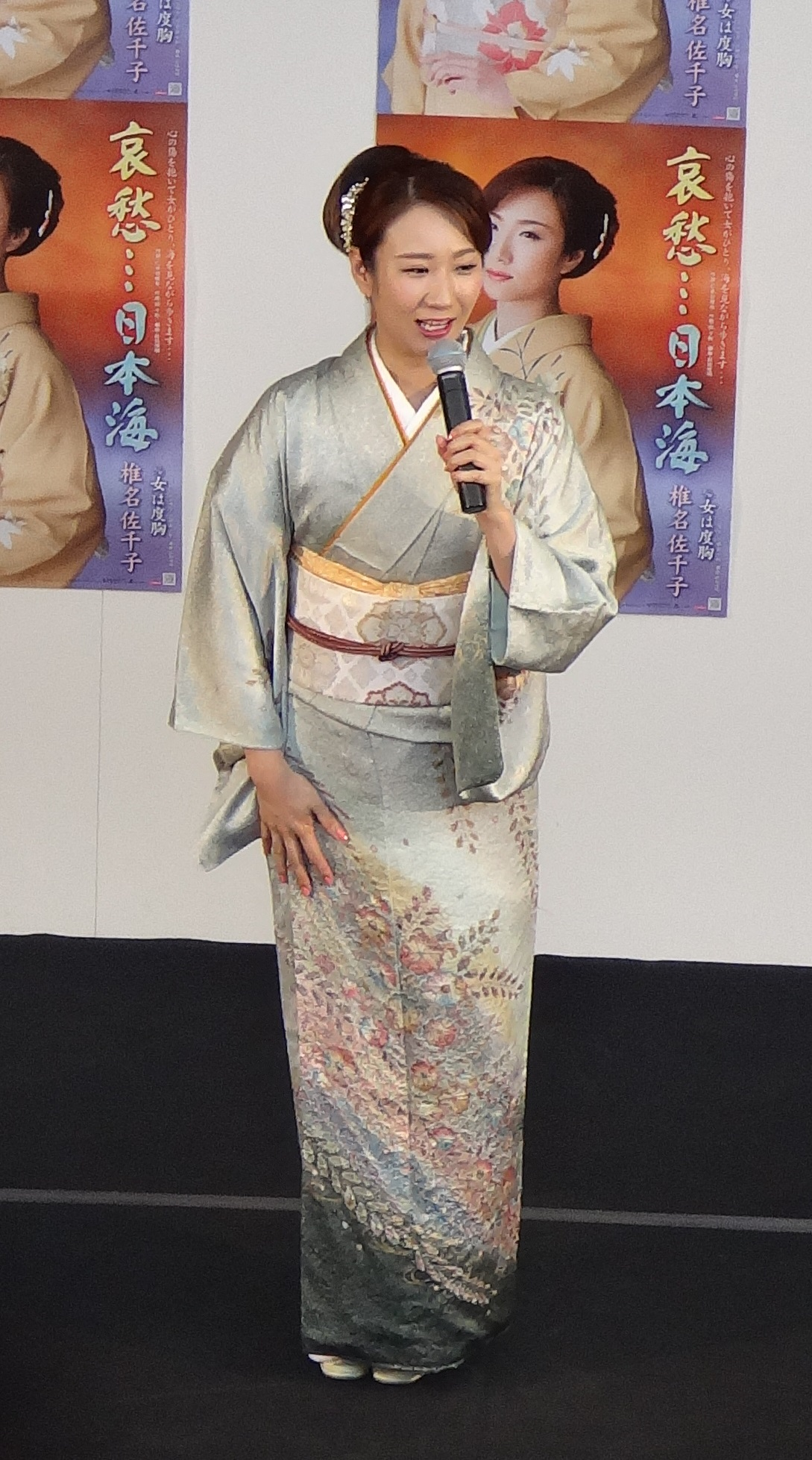 Japanese enka singer Sachiko Shiina at a promotional event at the Wakaba Walk shopping centre in Tsurugashima, Saitama, Japan